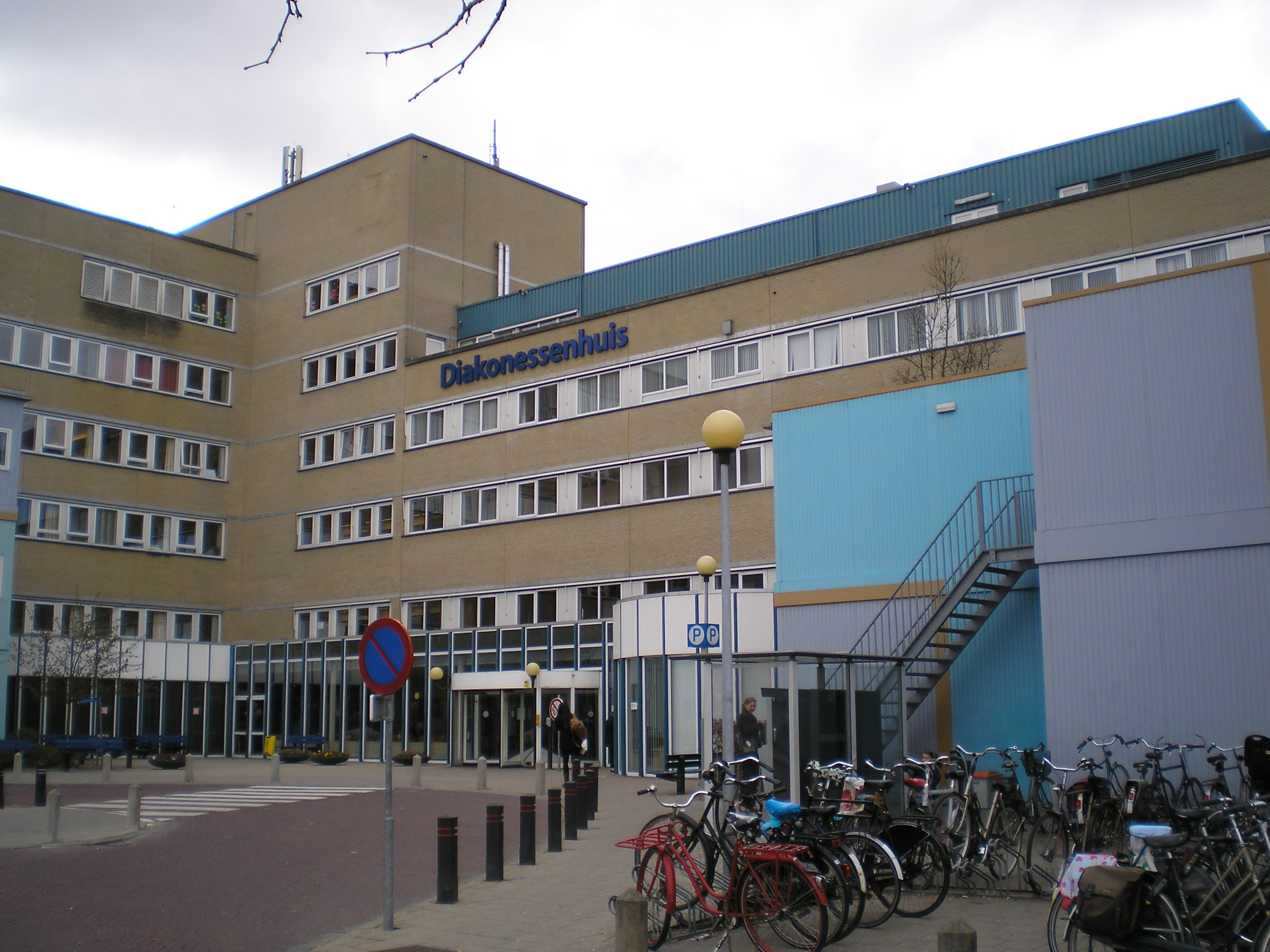 Diakonessenhuis the Bosboomstraat 1 in Utrecht in the Netherlands